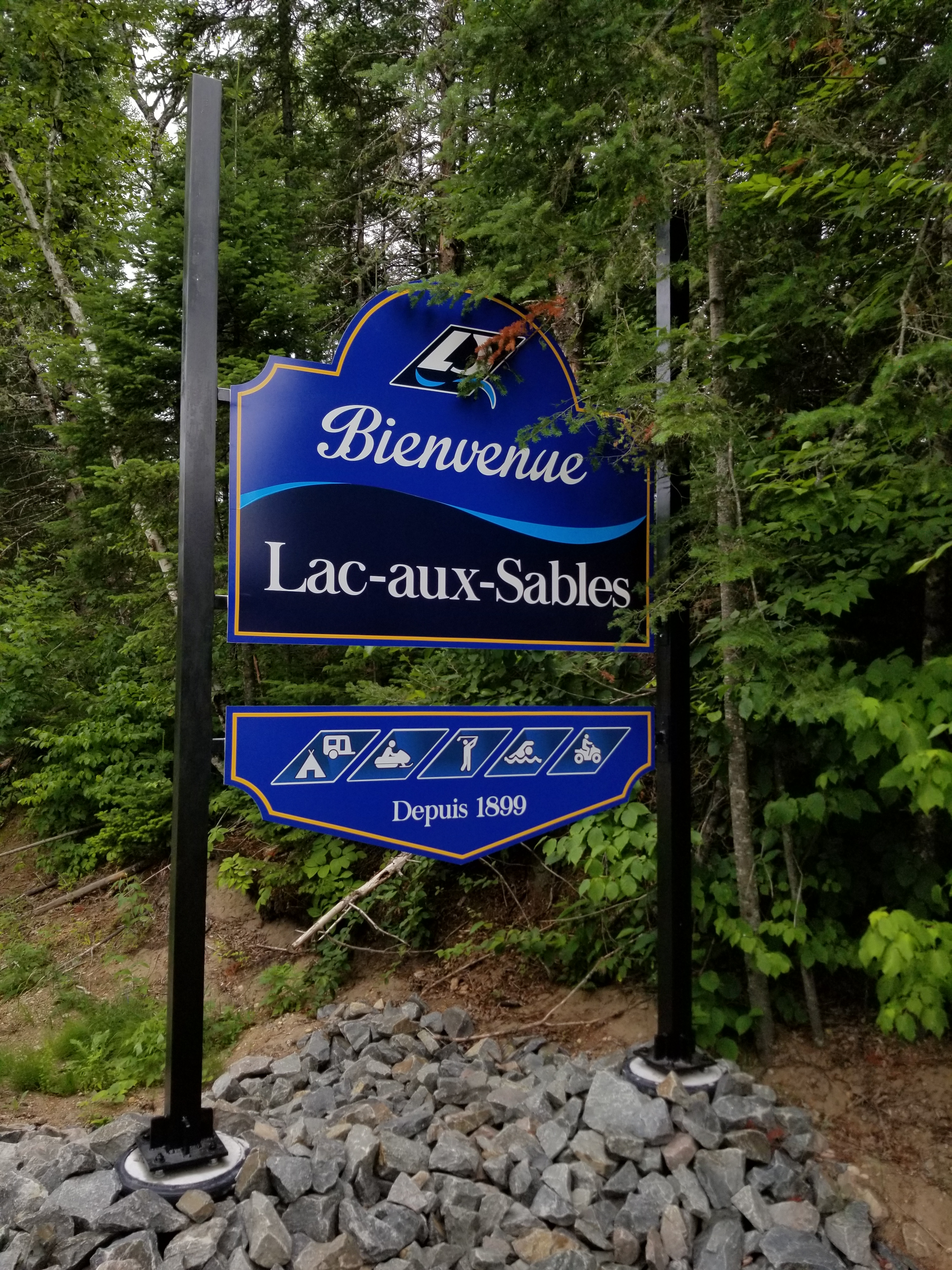 Municipal welcome sign installed at Tawachiche entrance (Saint-Alphonse road).